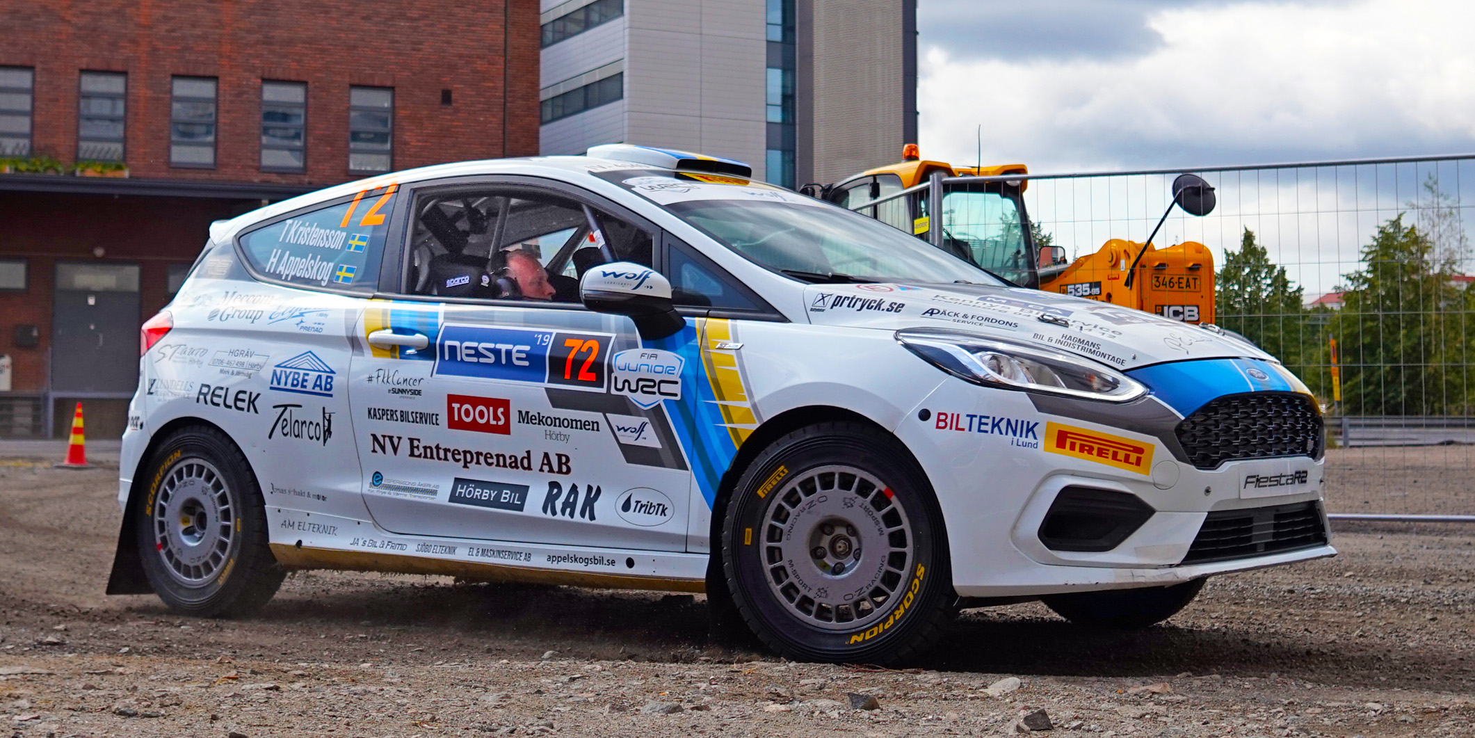 Ford Fiesta R2 (Tom Kristensson, Henrik Appelskog) during Neste Rally Finland in 3rd August 2019. Lutakko, Jyväskylä, Finland.